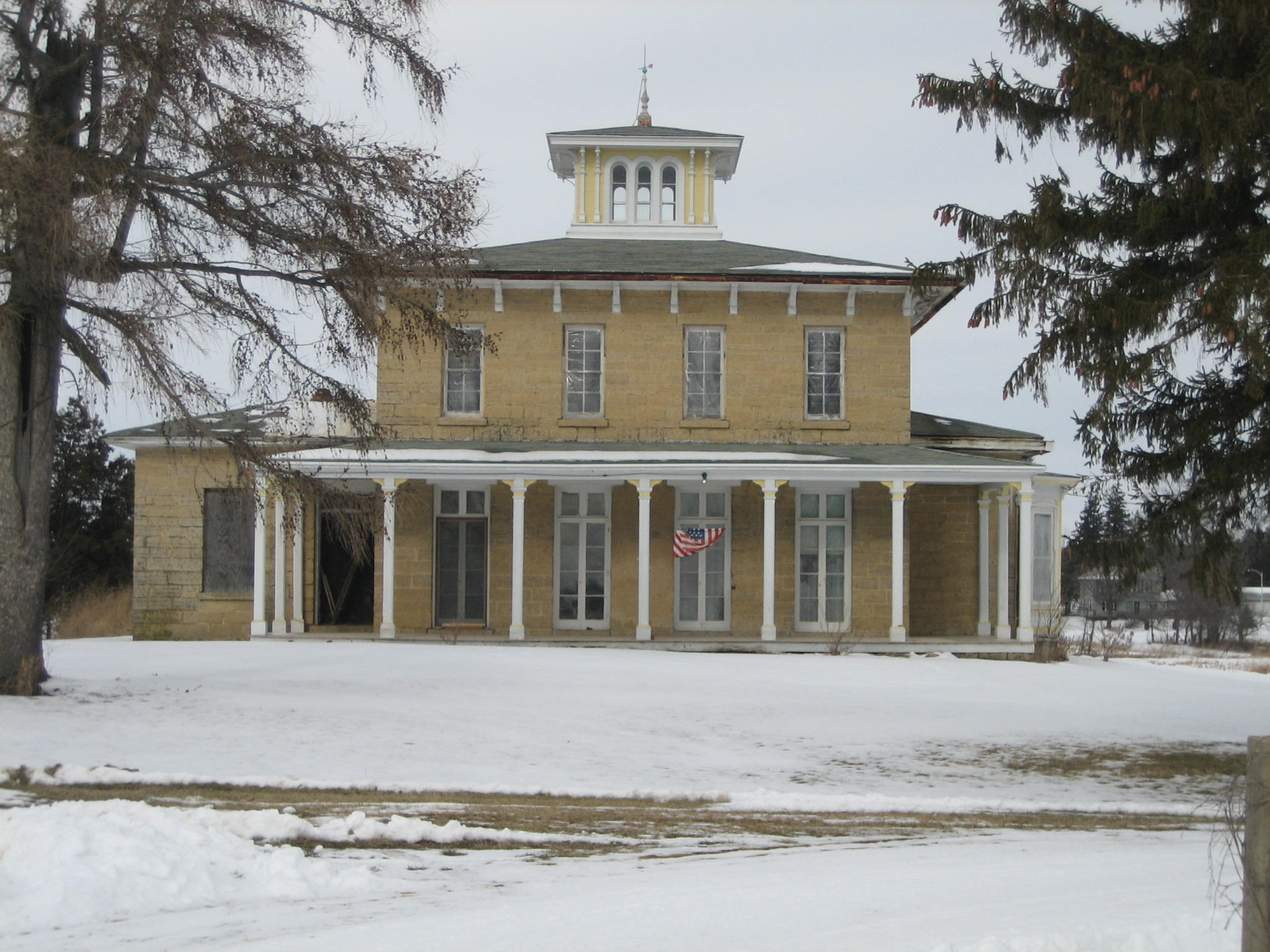 Samuel M. Hitt House, near Mount Morris, Illinois. National Register of Historic Places.